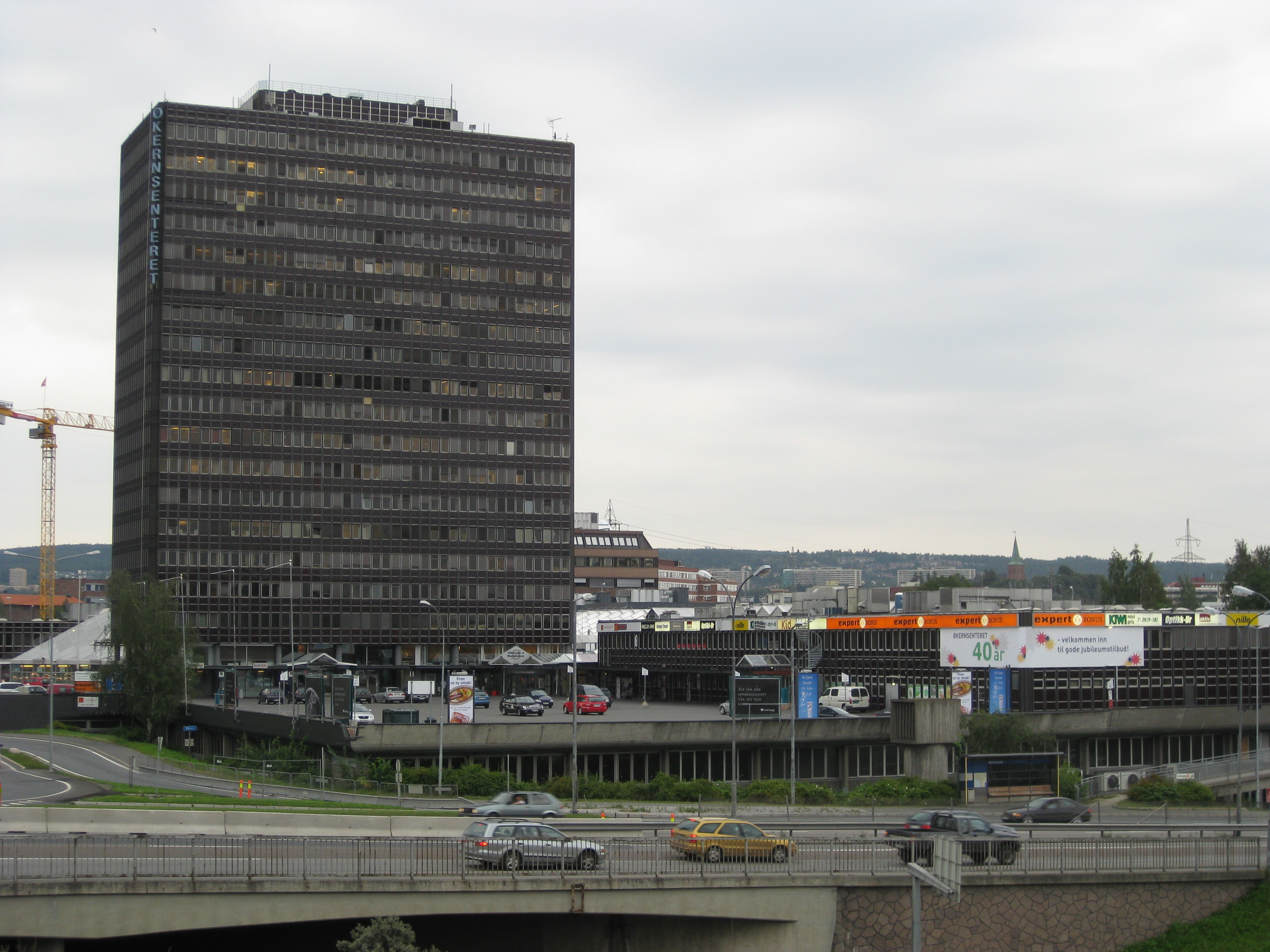 High rise building in Økern, Oslo, Norway.